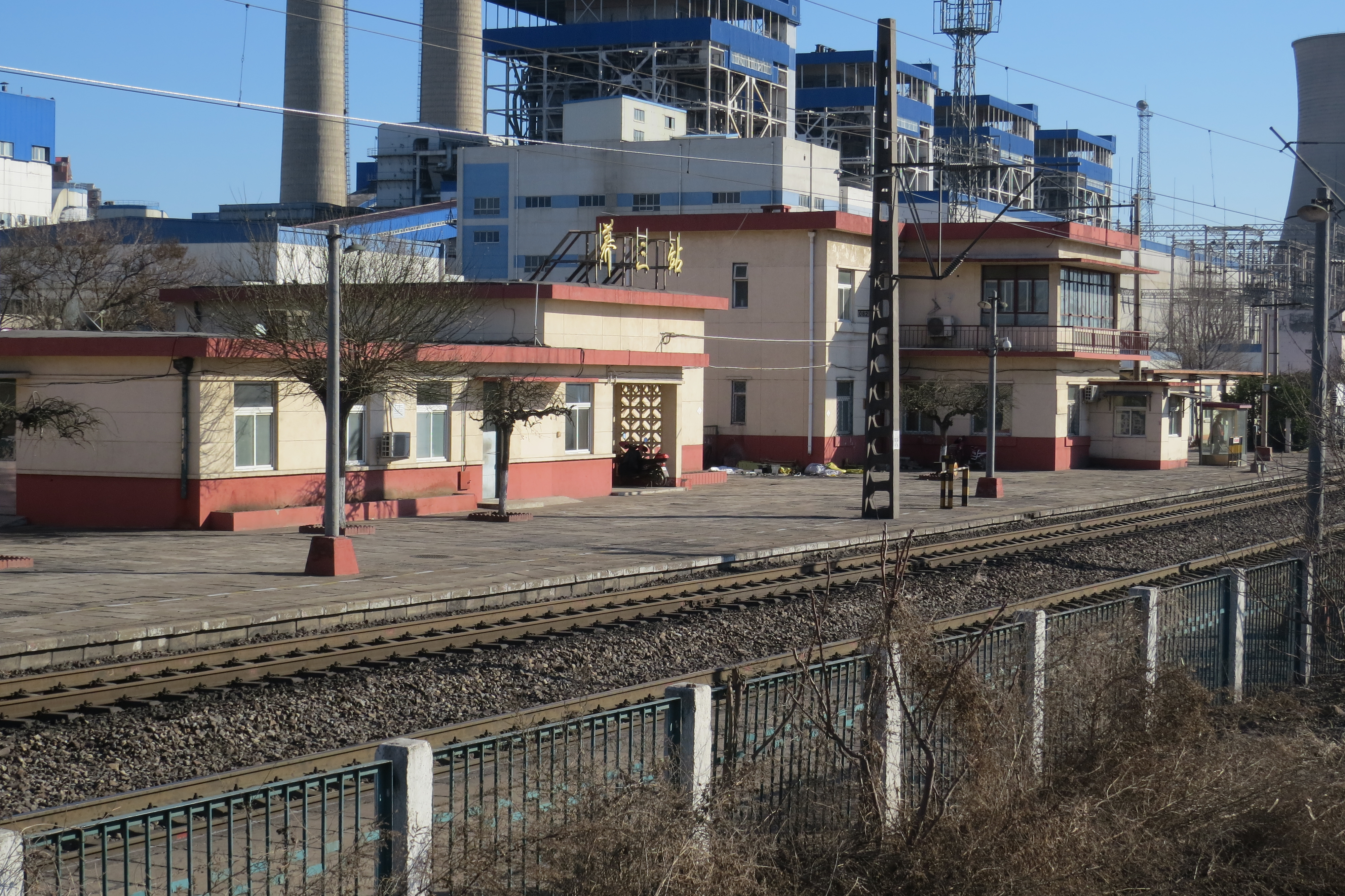 Taken before its closure. On patrol before Z337 passing here.